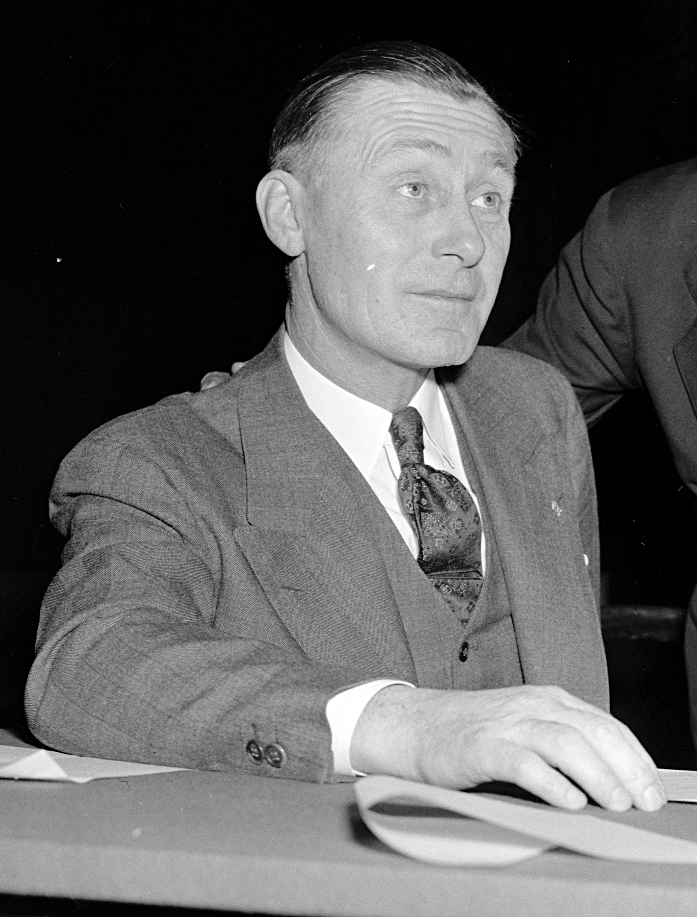 Harry R. Sheppard, US Representative from California